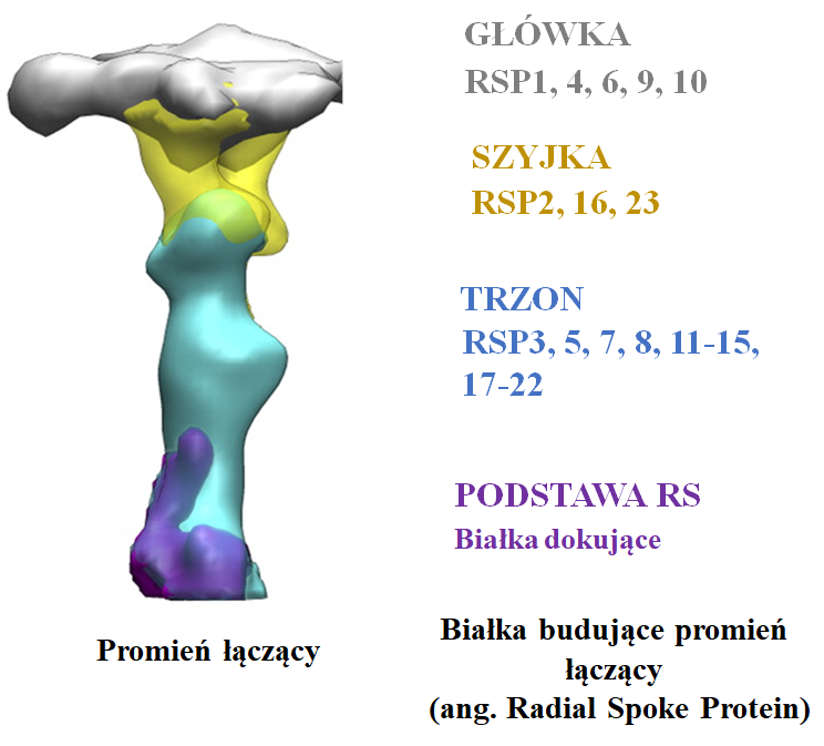 Białka budujące promień łączący